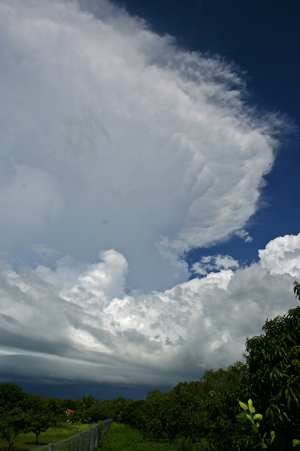 Cumulonimbus incus cloud with a shelf cloud at the base. Taken in the Northern Territory. Because this photograph concerns privacy since this was taken on a private property, only an approximate location is provided: Darwin, Northern Territory, Australia